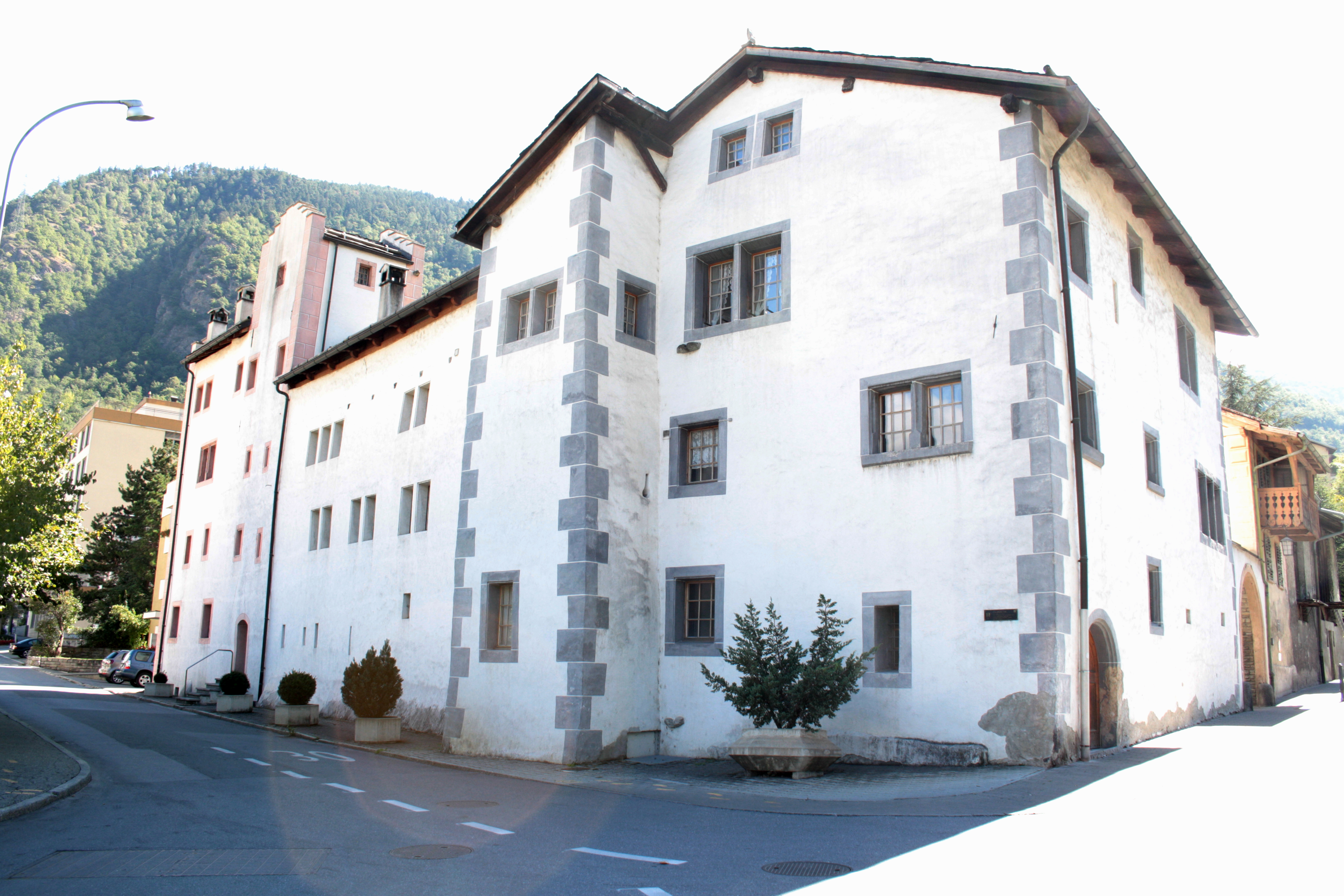 Pflanzetta